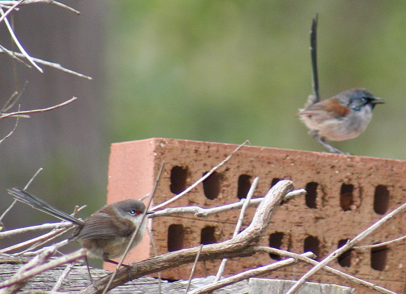 Red-winged Fairy-wrens Malurus elegans, female (front) and male in eclipse plumage (behind)- Boranup